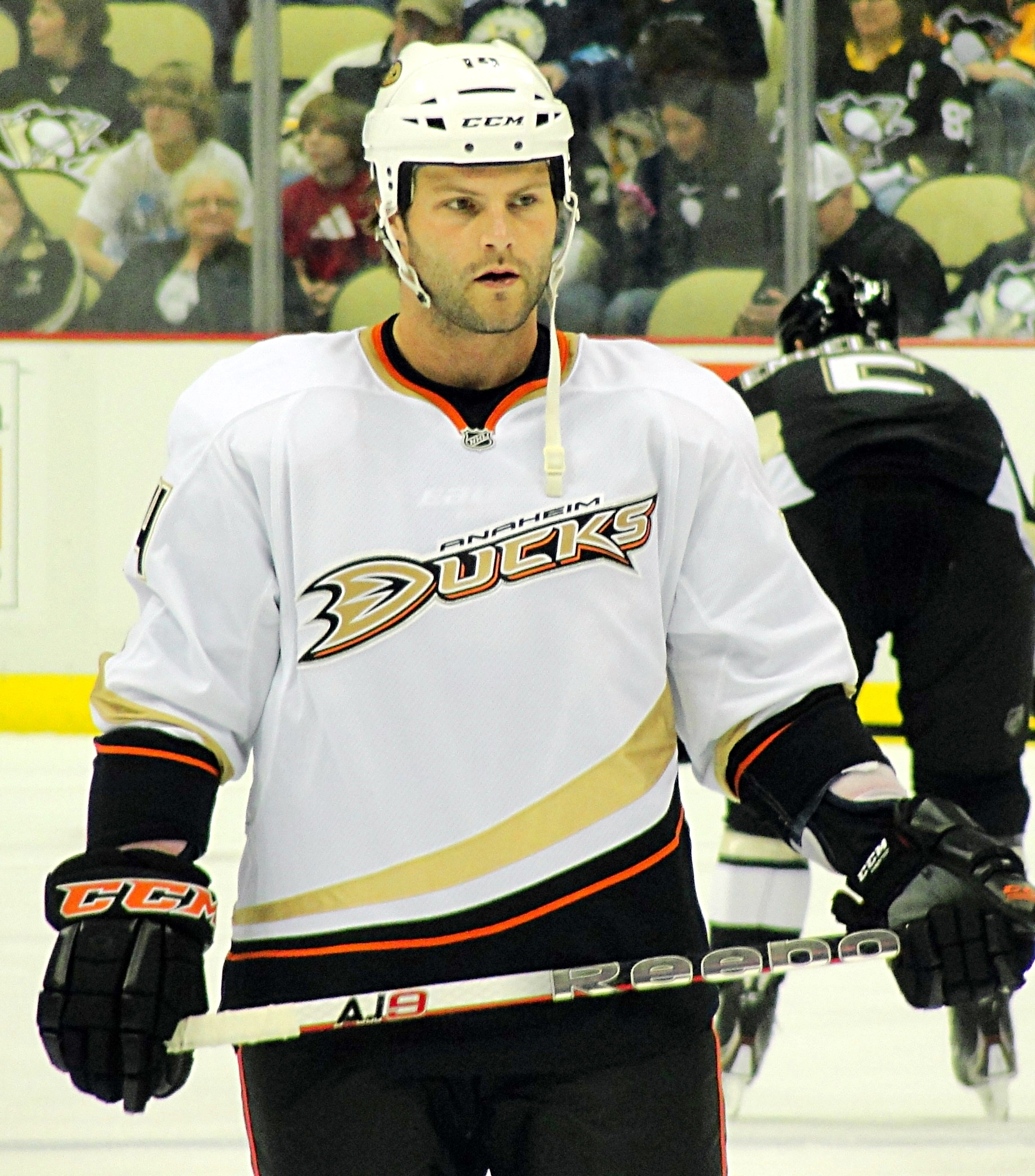 Rod Pelley of the Anaheim Ducks skates against the Pittsburgh Penguins, February 15, 2012 at Consol Energy Center in Pittsburgh, PA.